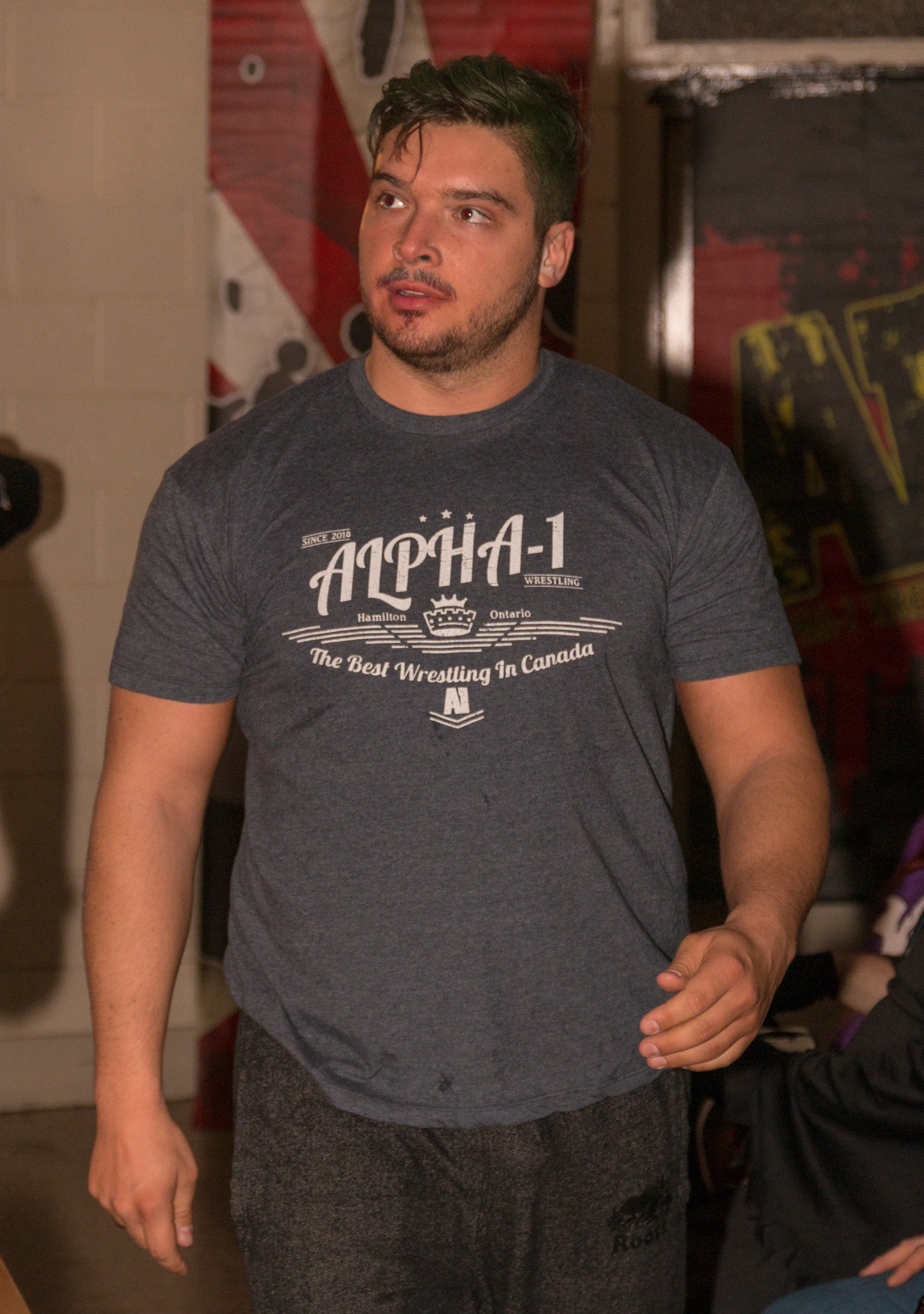 Ethan Page making his ring entrance at an Alpha-1 show in Hamilton, ON